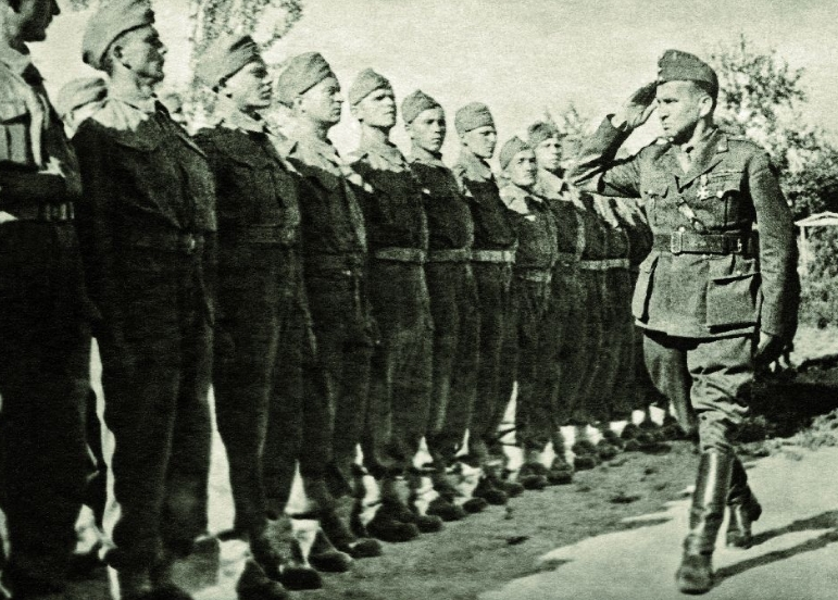 The commander of the 7th Infantry Division, Colonel Leopold Okulicki, inspects the troops, the ceremony on May 3, 1942. Polish Armed Forces in the USSR.